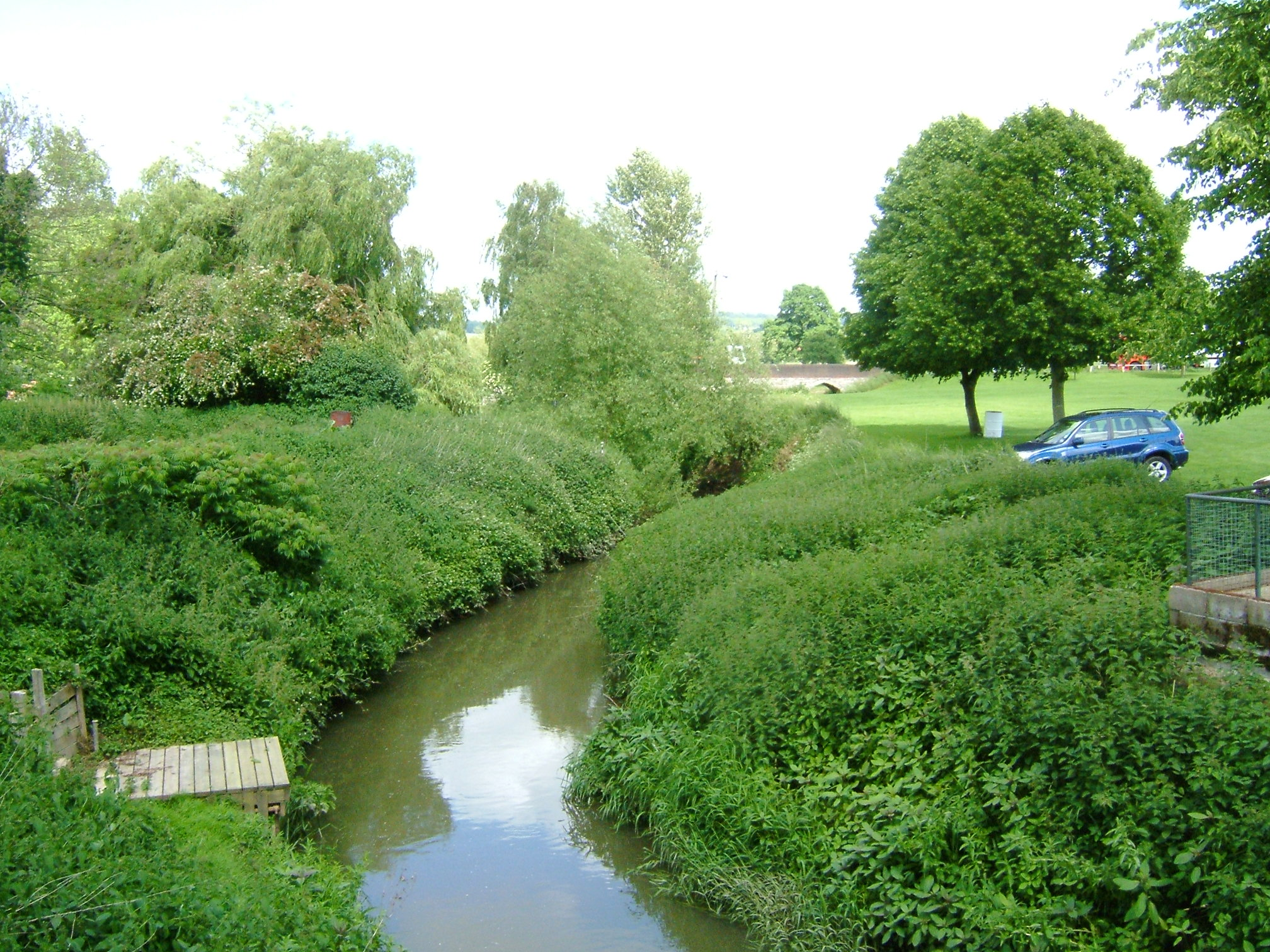 The River Teise(Lesser Teise) enters the Medway, at Yalding, Kent, just downstream if the automatic sluice where the river drops from +11.2m to +7.41m above mean sea level. This photo is taken from by the automatic sluice looking downriver, Twyford Bridge can be seen in the distance.United, the Teise and Medway pass under Twyford Bridge. The river then flows in a loop towards Yalding, where it is joined by the River Beult which has been joined by the River Teise (the other bit!) and has passed under Town Bridge. Twyford Bridge replaced the two Fords, that is, the fords over the Teise and the Medway.